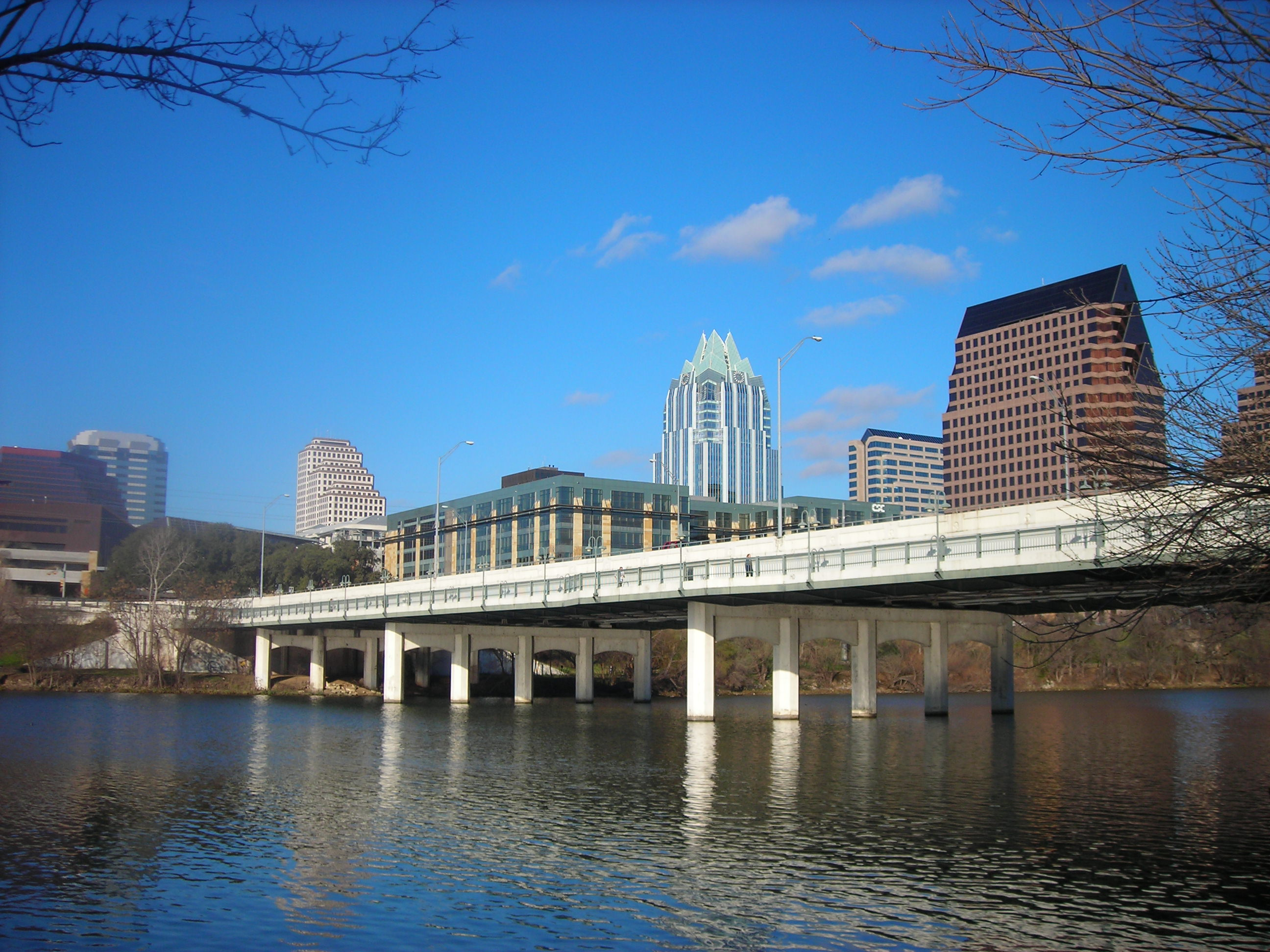 A photo of Austin Texas